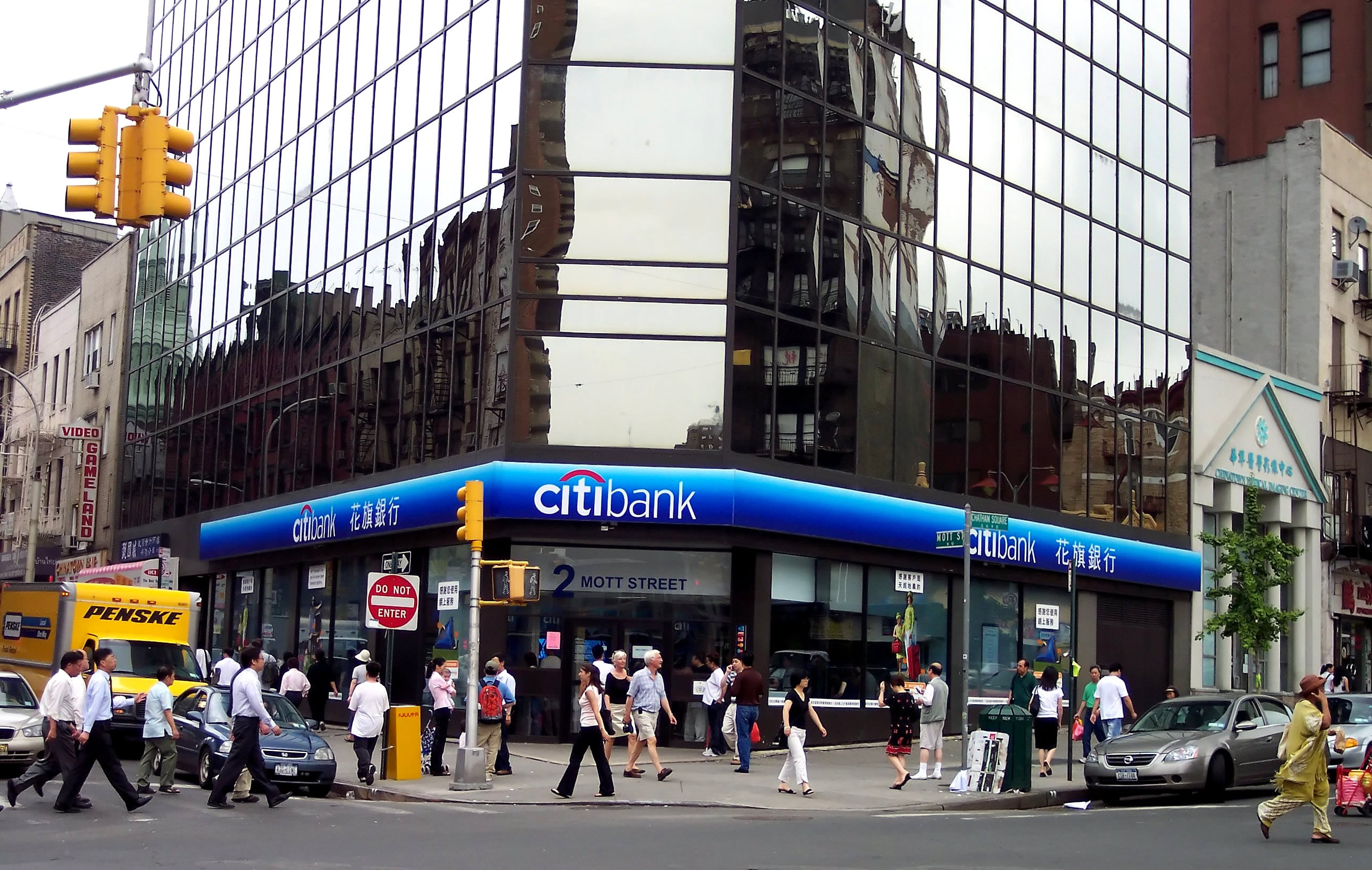 Citibank branch in Chinatown district of Lower Manhattan (New York City, New York, USA). This building, 2 Mott Street, faces Chatham Square.